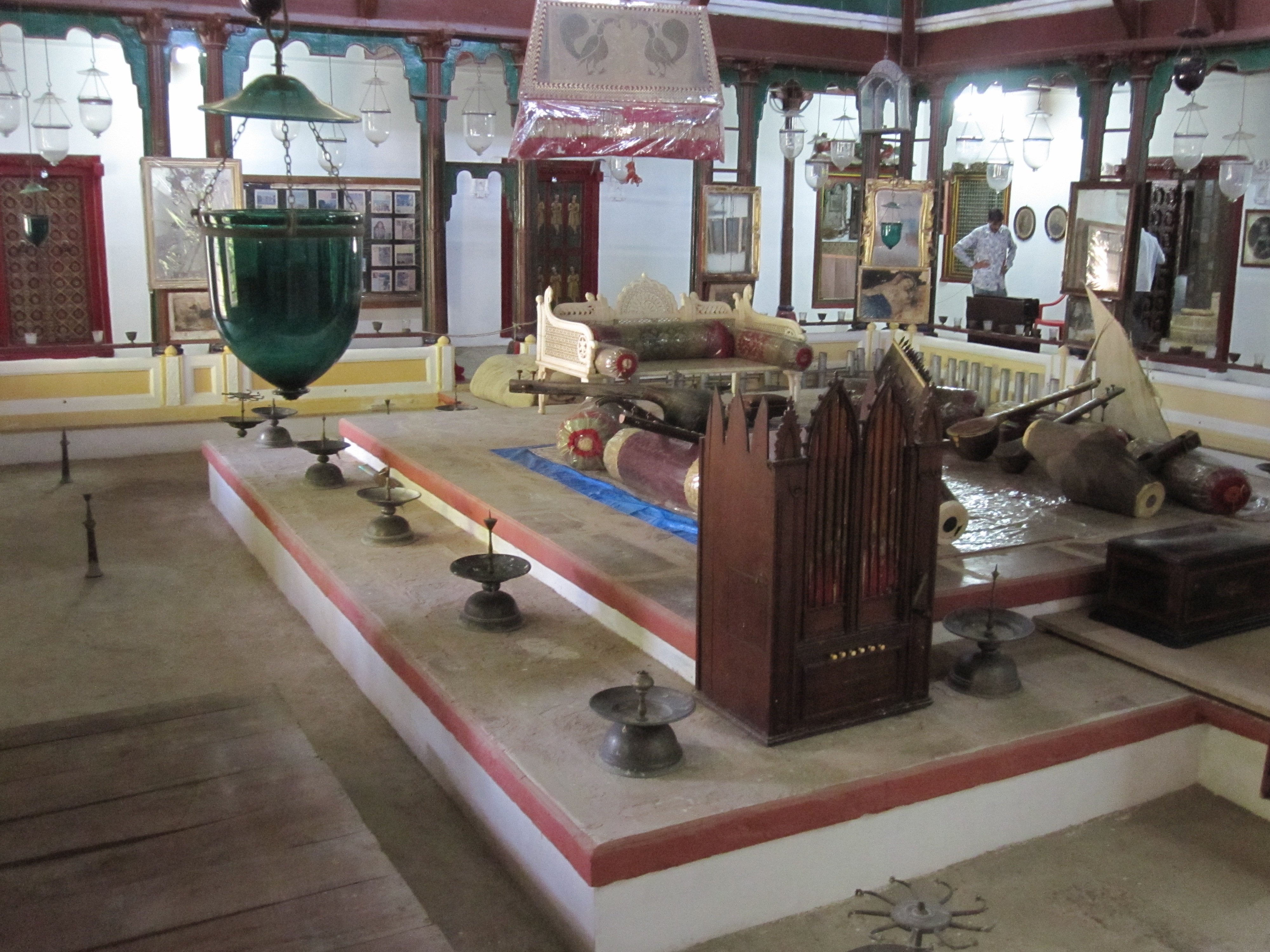 Aina Mahal, Bhuj. This room has a throne for the Maharao. The sunken area would be filled with water like a little moat.